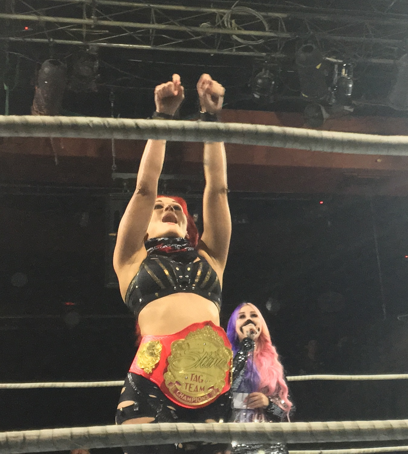 Ivelisse with the Shine Tag Team Championship